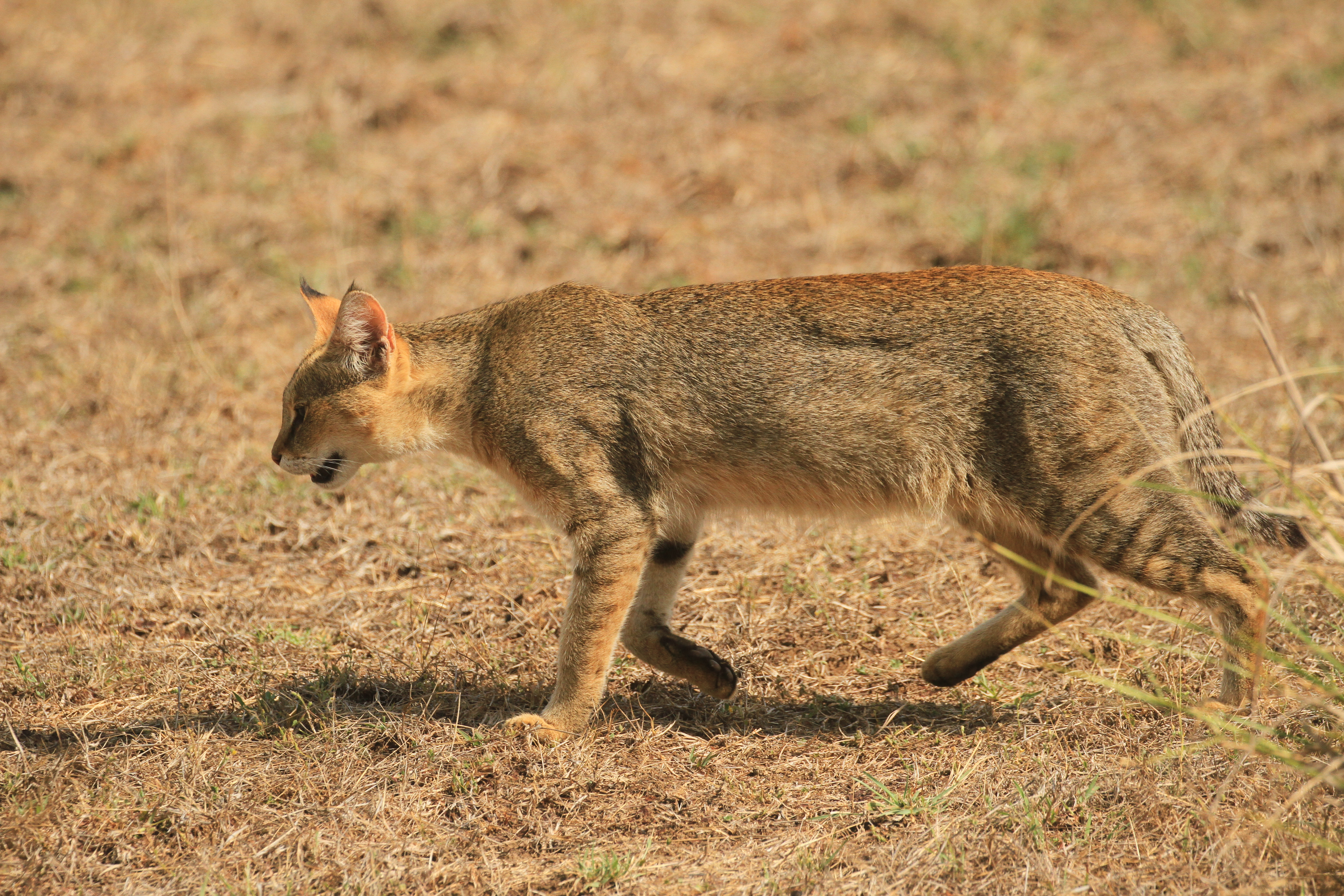 David raju_mammals